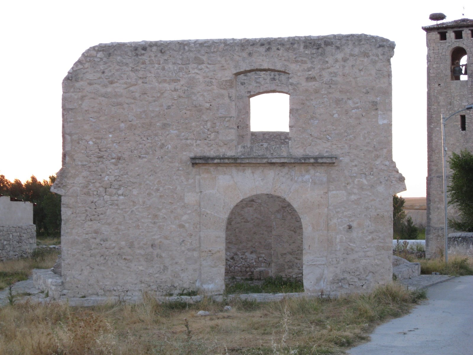 Old House Ruins